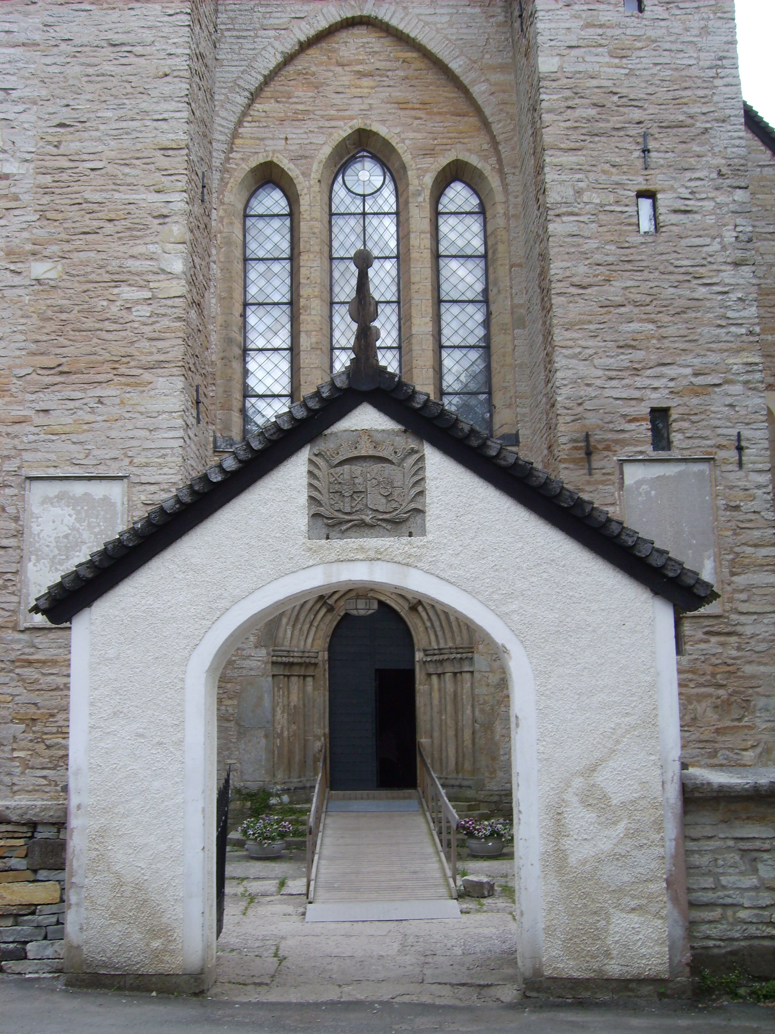 The monastic church Varnhem, convenient in the place Varnhem between the cities Skara and Skövde in the Swedish province Västergötland, is the grave church of the medieval king dynasty Eriks (Knut Eriksson and Erik Knutsson, Erik Eriksson) as well as the master father of the Bjälbo dynasty Birger Jarl and realm chancellor Magnus Gabriel de la Gardie. The monastery Varnhem was created 1150 of Cistercians as a daughter of monastery Alvastra, in the Swedish province Östergötland. The monastic church, originally in Roman style built, was heavily damaged in a fire 1234. It became in early gothic style after the model of the churches of Clairvaux (France) and Marienfeld (Germany) rebuilt. In the centre of the 17th century Swedish realm chancellor Magnus visited de la Gardie, whose county Läckö laid not far from Varnhem, the church. It recognized the value of the church as former royal grave church and let it recondition, since it should accommodate its own burial place (and those family). Between 1918 and 1923 the church was again reconditioned. At the same time the foundation walls of the monastery buildings were excavated. These excavations were taken up to the 1970 years again and are today accessible to the public. Further pieces of find can be visited in the monastery museum beside the church.